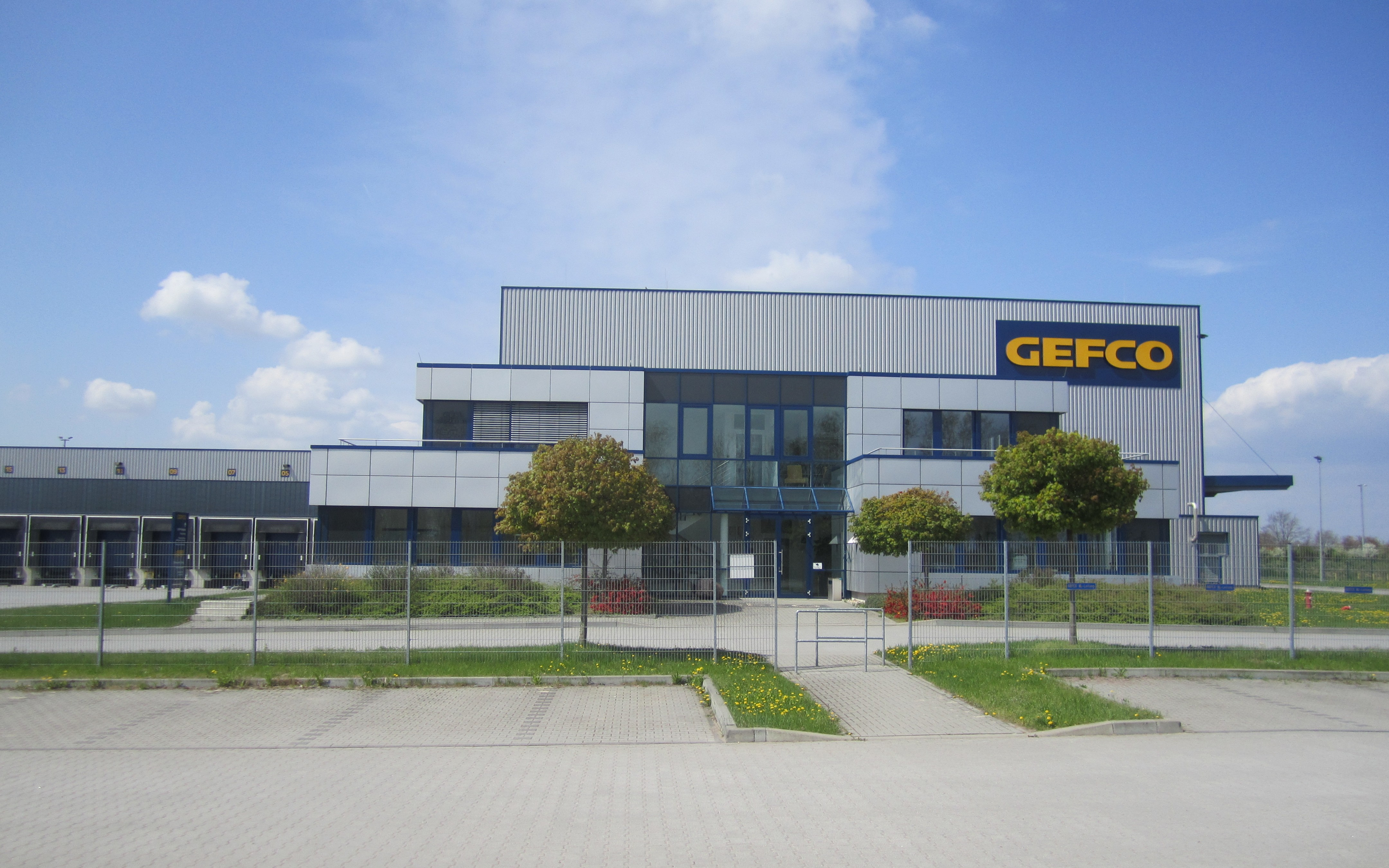 GEFCO building, Großbeeren near Berlin, Germany.